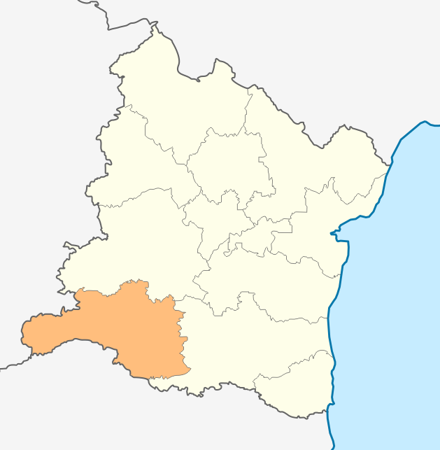 Map of Dalgopol municipality, Varna Province